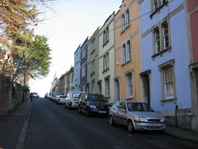 St Andrews Road, Montpelier Coloured houses ascending the hill over the railway tunnel towards St Andrews.